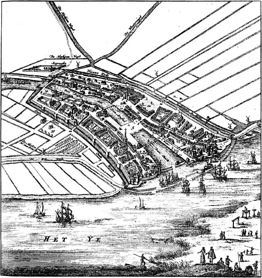 Old Amsterdam like it was around the year 1300.